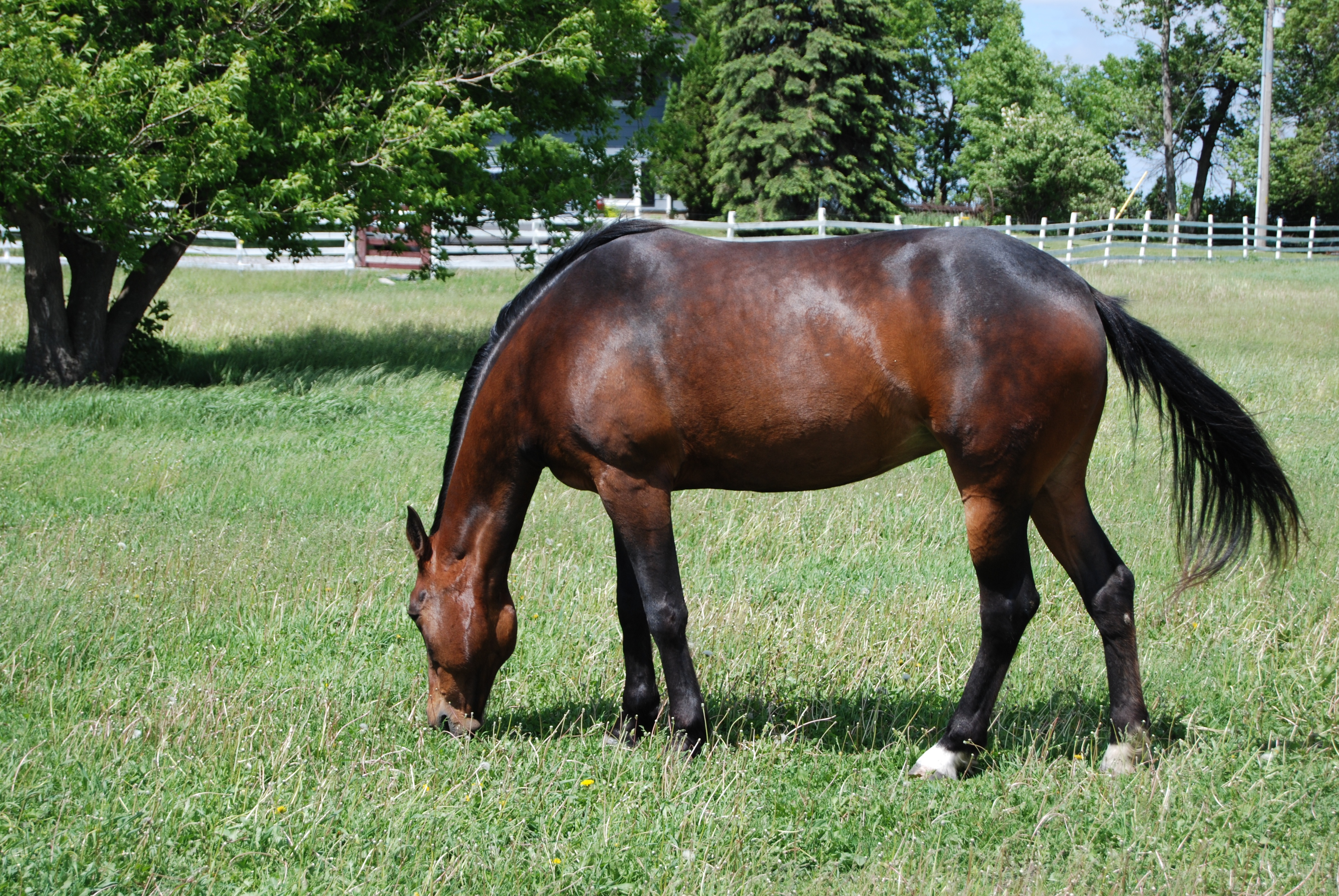 Sioux a Standardbred mare in the Pasture